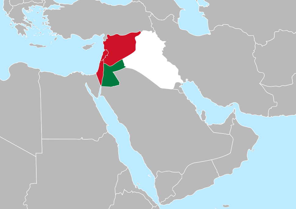 Jordan King Abdullah's Greater Syria proposal 1946, rejected by Syria and Lebanon